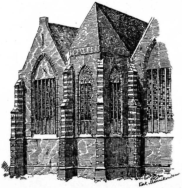 Adriaan Willem Weissman. Church, Monnickendam, detail. 1883.